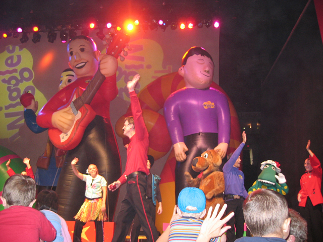 Wiggles Murray and Jeff wave goodbye in Oakland Arena, California, USAMurray & Jeff